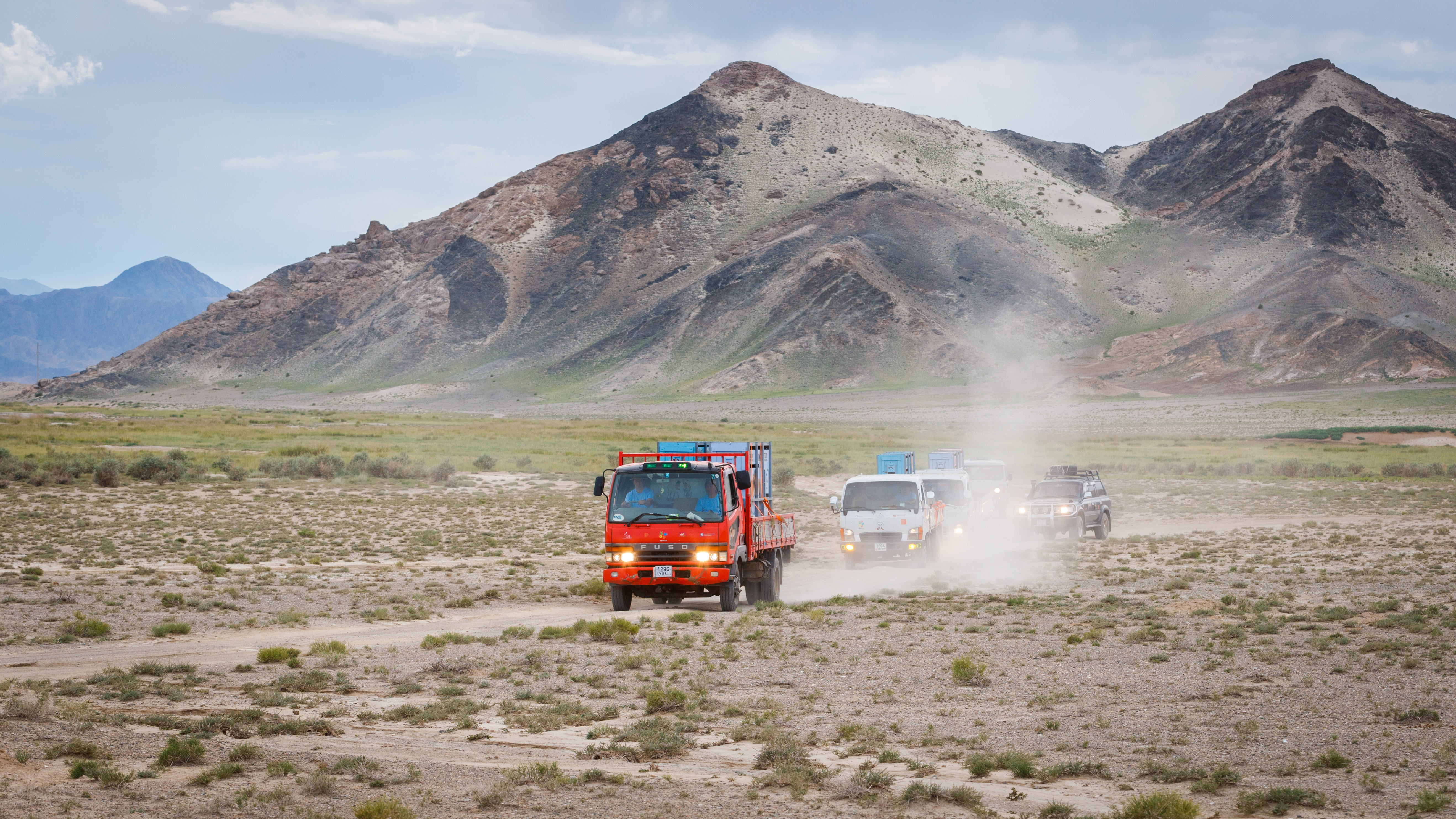 Sixth year of Return of the Wild Horses Project 4